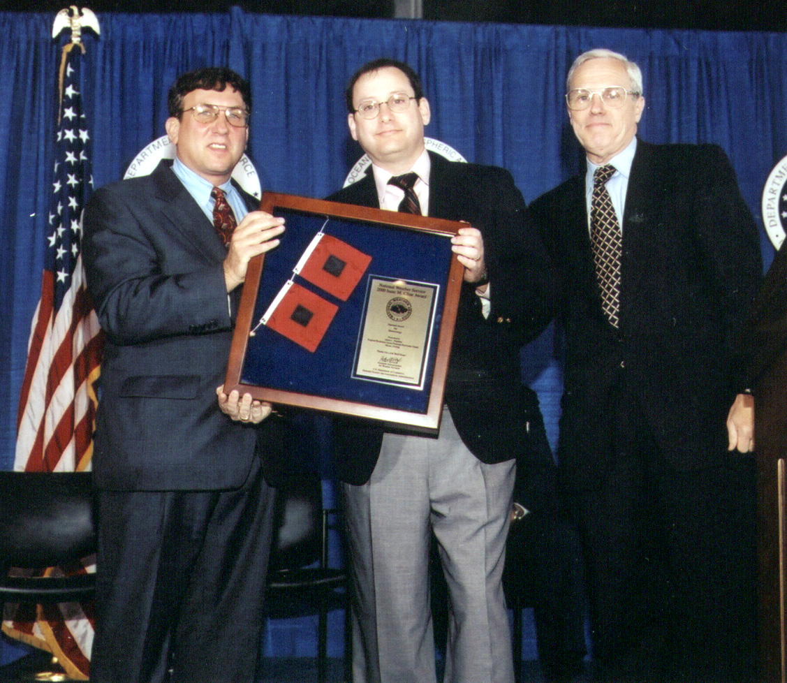 NOAA's National Weather Service conferred its highest honor, the Isaac M. Cline Award, to James Franklin of Miami, a hurricane specialist at NOAA's National Hurricane Center. The award was presented at the 2001 Hurricane Season Opening news conference in Washington, D.C., on May 21, 2001. Franklin was recognized for improving the accuracy of hurricane forecasting through the innovative application of Global Positioning System technology.